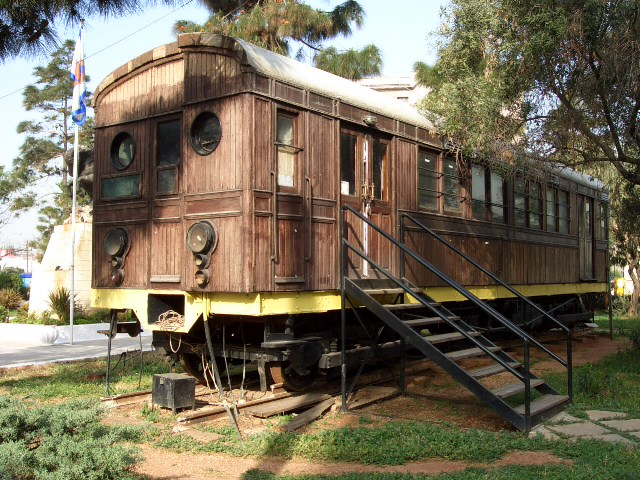 Former train of the Athens-Piraeus Electric Railway, produced by Siemens in the 1920 (?) Photo: Christos Vittoratos